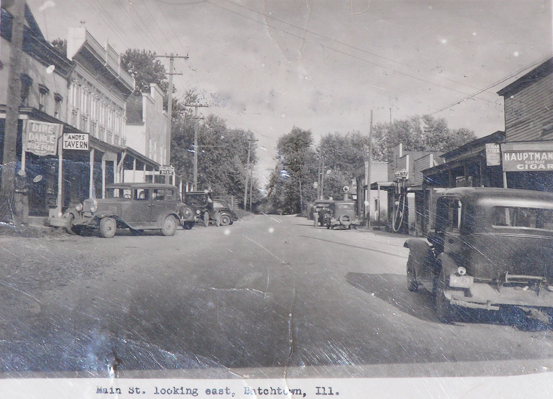 Main Street Batchtown looking east